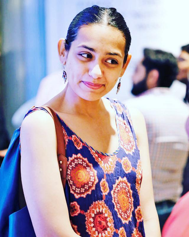 Shilpi Marwaha Image